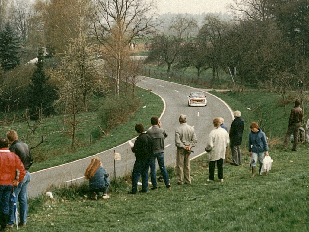 Hillclimbing at Zotzenbach, Germany, 1989